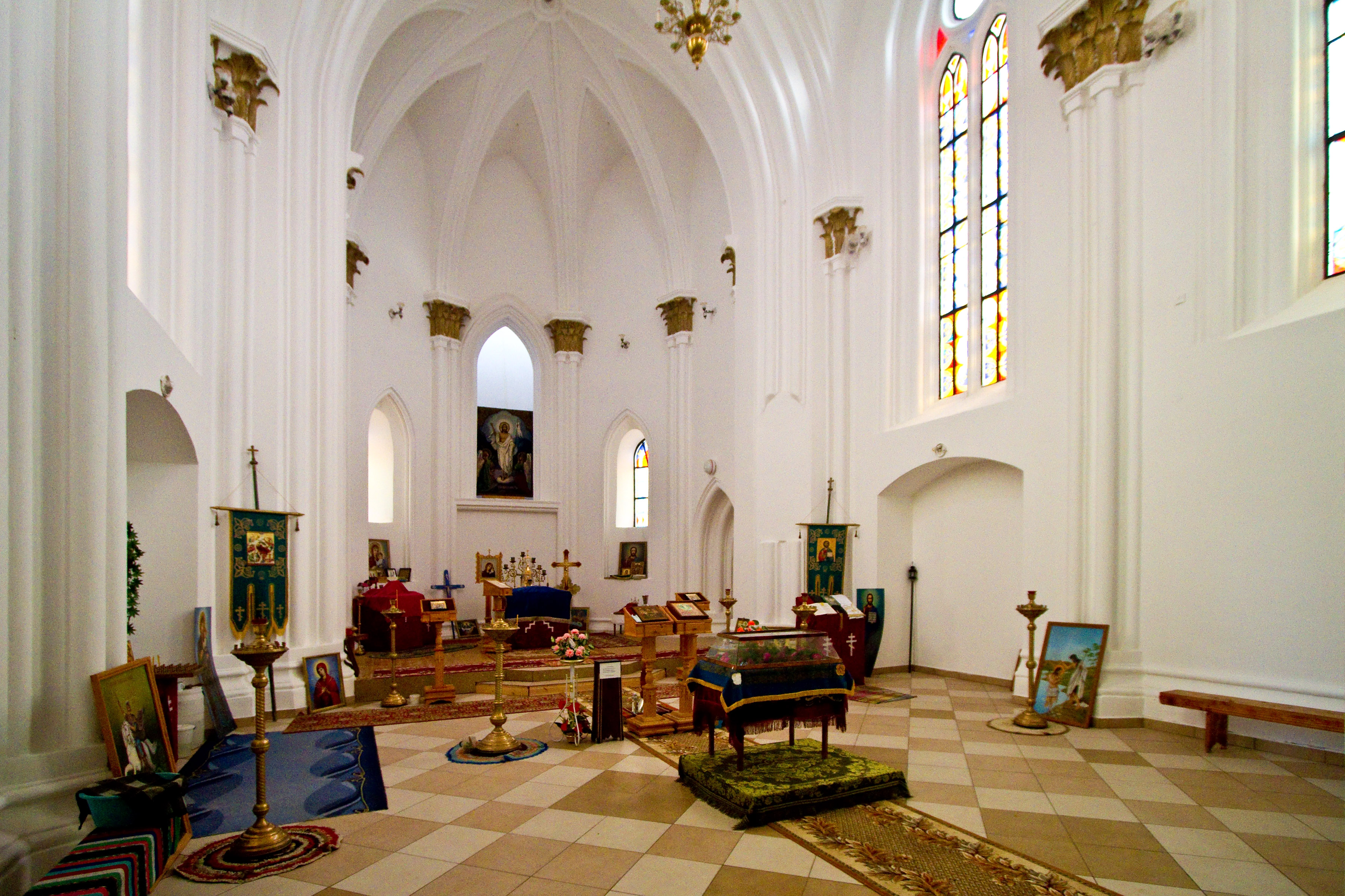 Catholic church or Sarja. Former Catholic church of the Blessed Virgin Mary. Now Church of the Assumption. Sarja village, Vierchniadźvinsk district, Viciebsk province, Belarus.